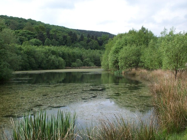 Swallows Wood. The lake at the Swallows Wood Nature Reserve